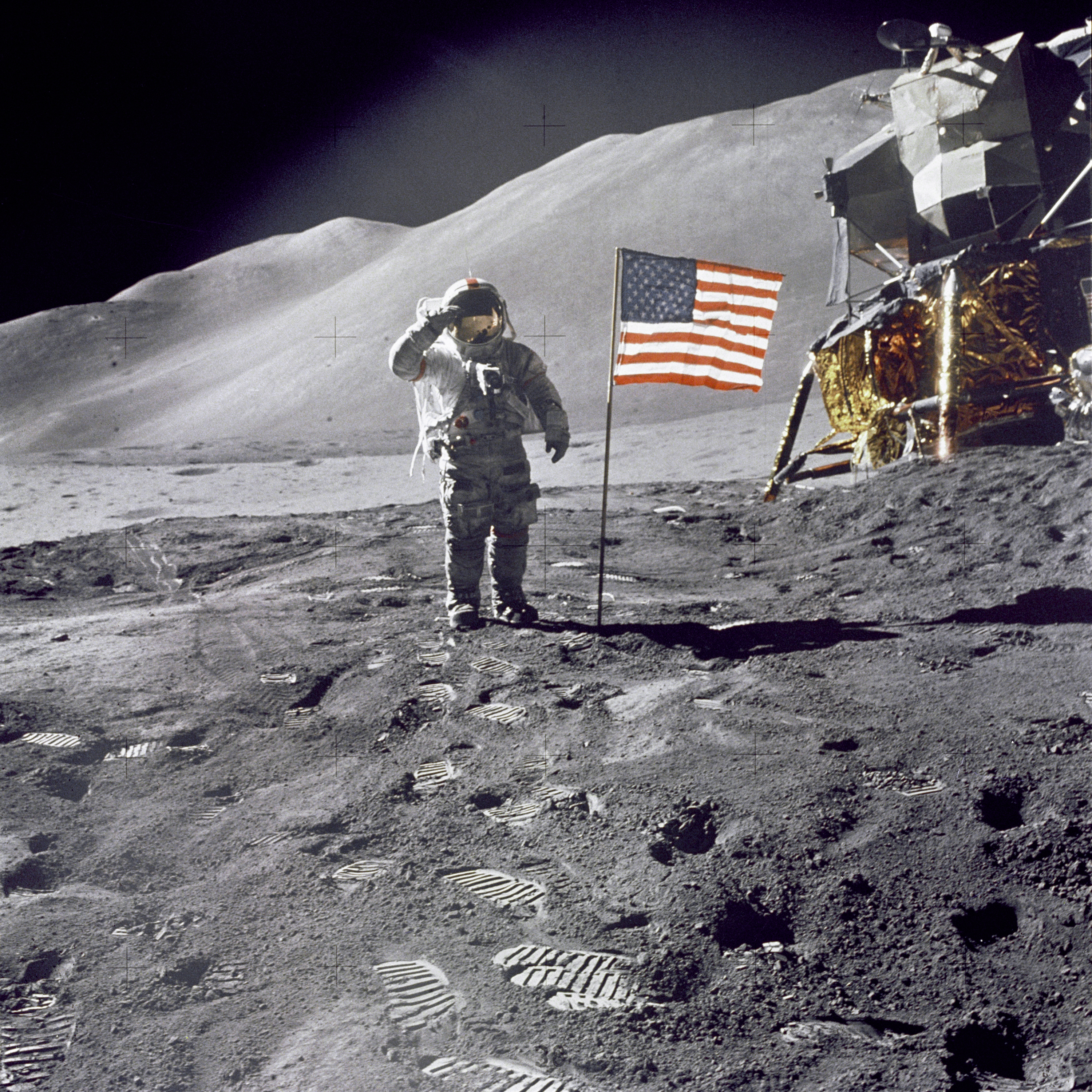 Astronaut David R. Scott, commander, gives a military salute while standing beside the deployed U.S. flag during the Apollo 15 lunar surface extravehicular activity (EVA) at the Hadley-Apennine landing site. The flag was deployed toward the end of EVA-2. The Lunar Module "Falcon" is partially visible on the right. Hadley Delta in the background rises approximately 4,000 meters (about 13,124 feet) above the plain. The base of the mountain is approximately 5 kilometers (about 3 statute miles) away. This photograph was taken by Astronaut James B. Irwin, Lunar Module pilot.